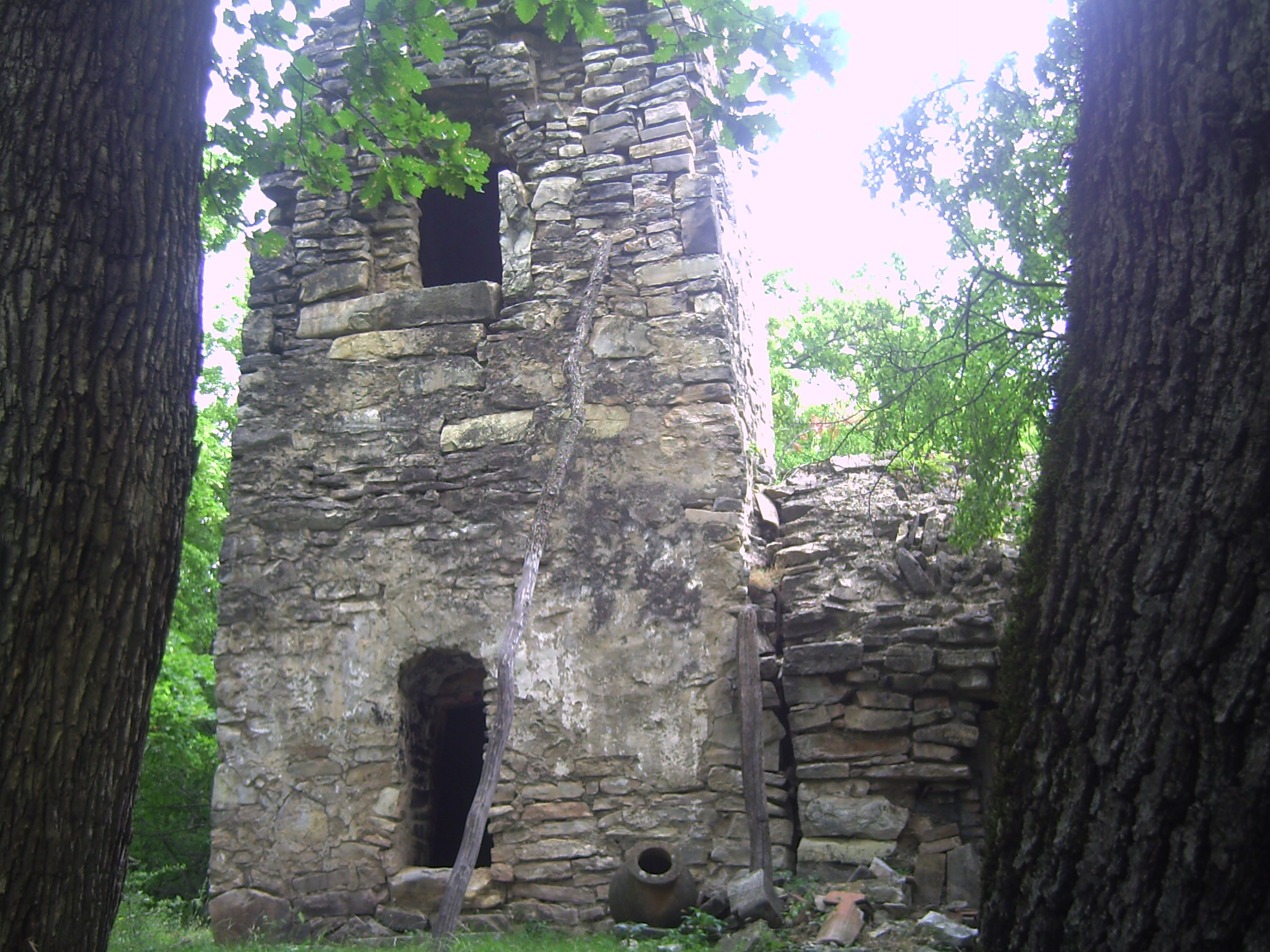 Iagsari of Matani